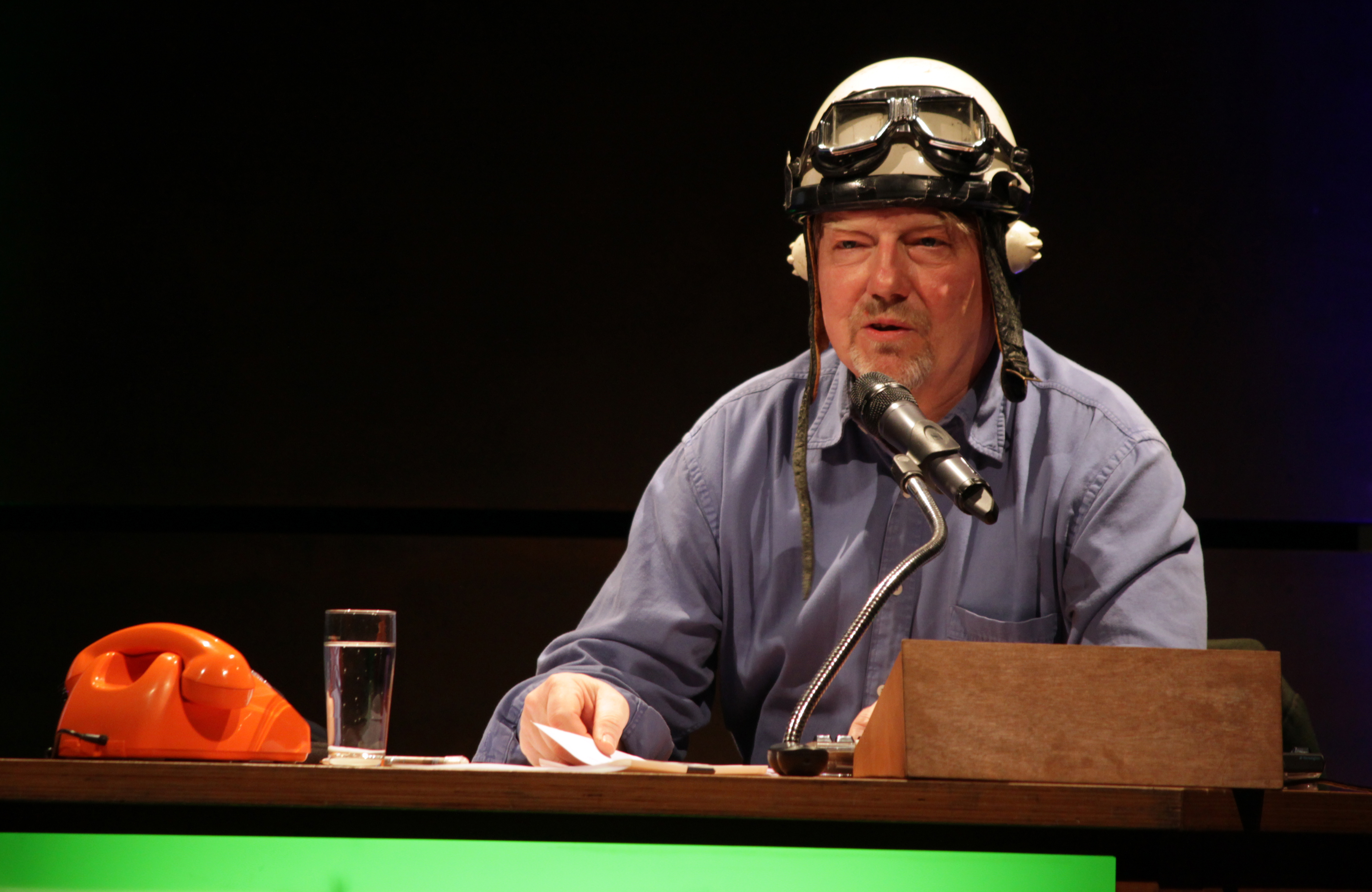 Dietmar Wischmeyer in the Auditorium Maximum of the University of Applied Sciences in Brandenburg an der Havel on 14th of April 2013, during the performance of "Deutsche Helden".